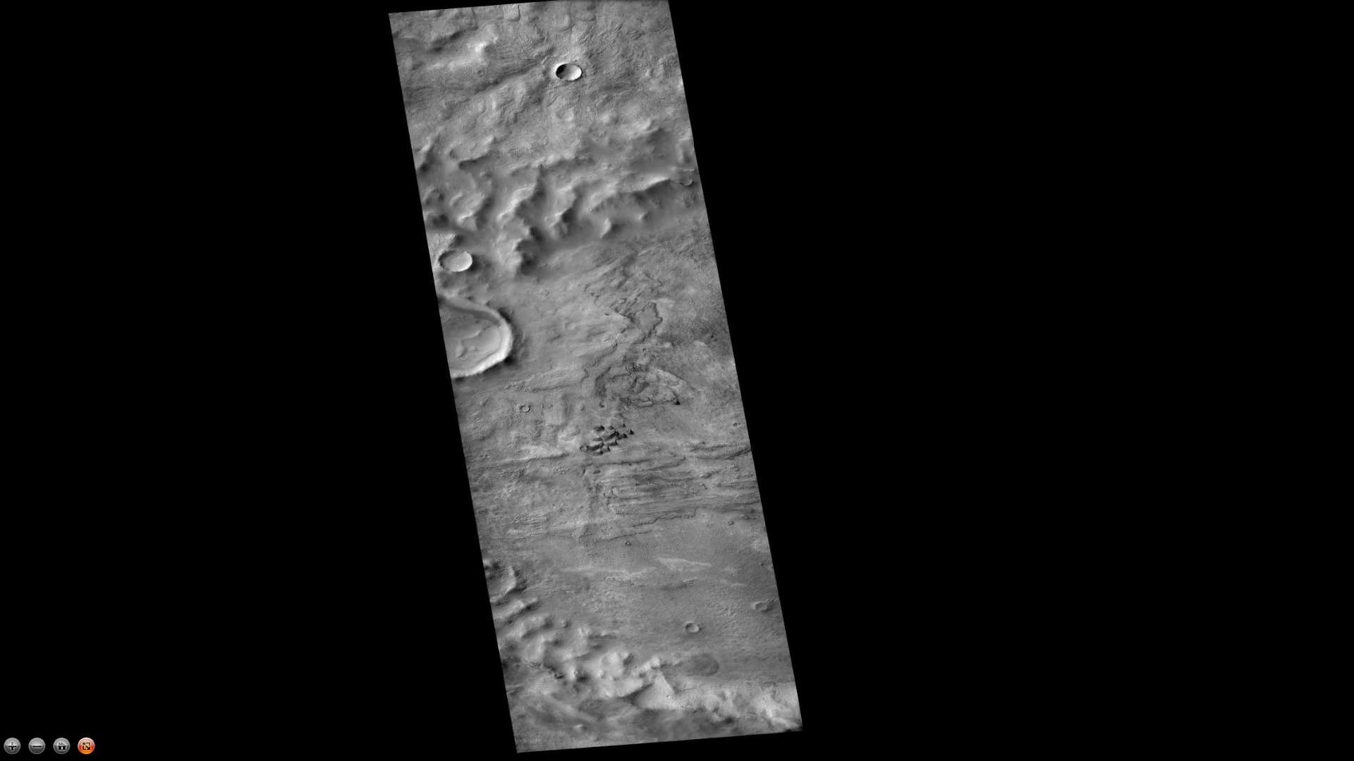 Huggins Crater, as seen by ctx